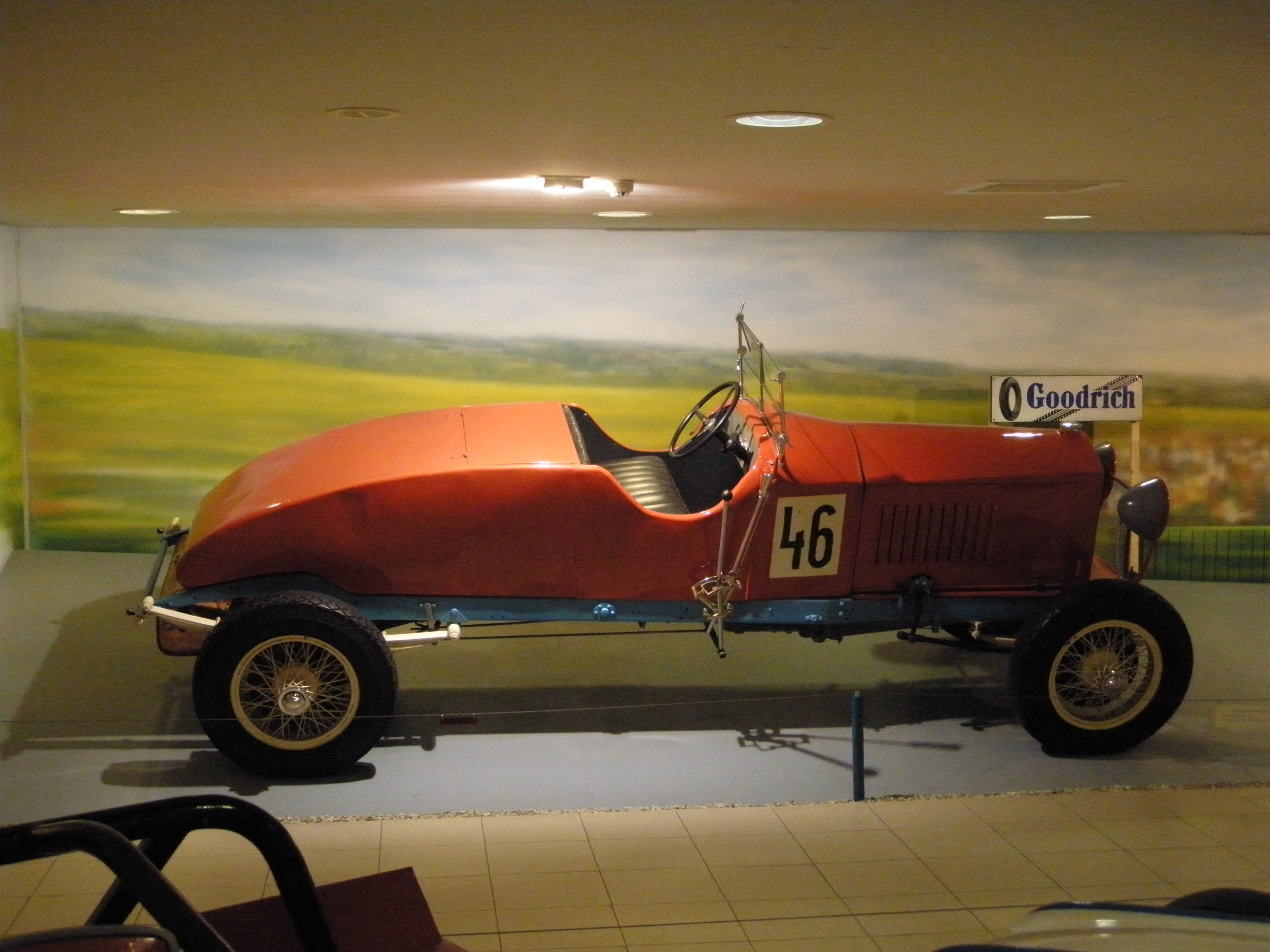 Tatra 10 racecar (NW type U)